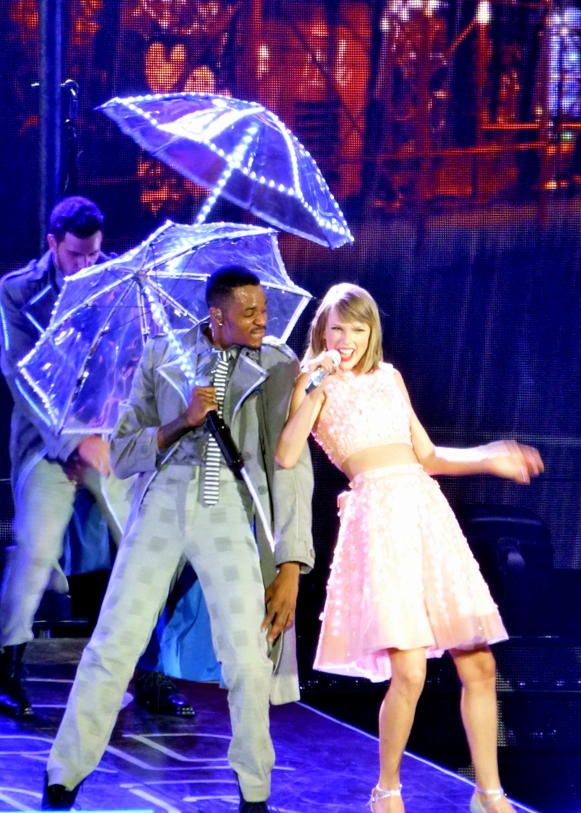 Taylor Swift 1989 Tour at Ford Field in Detroit, 5/30/15